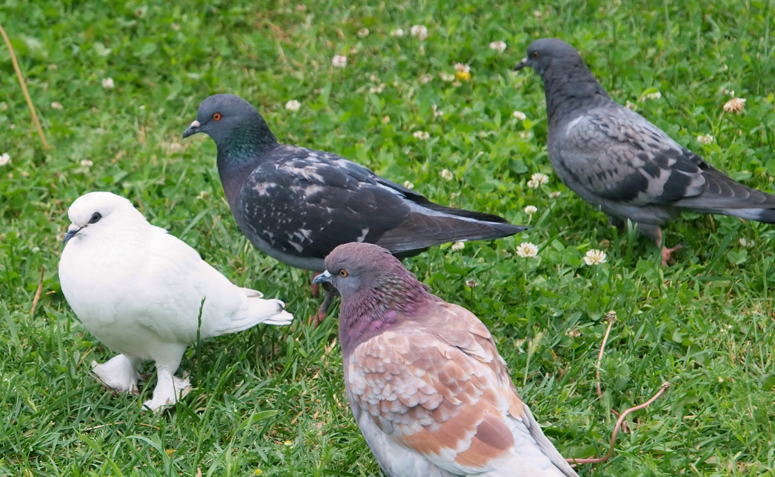 White pidgeon in a large colony feeding near Tikhvin church, Moscow